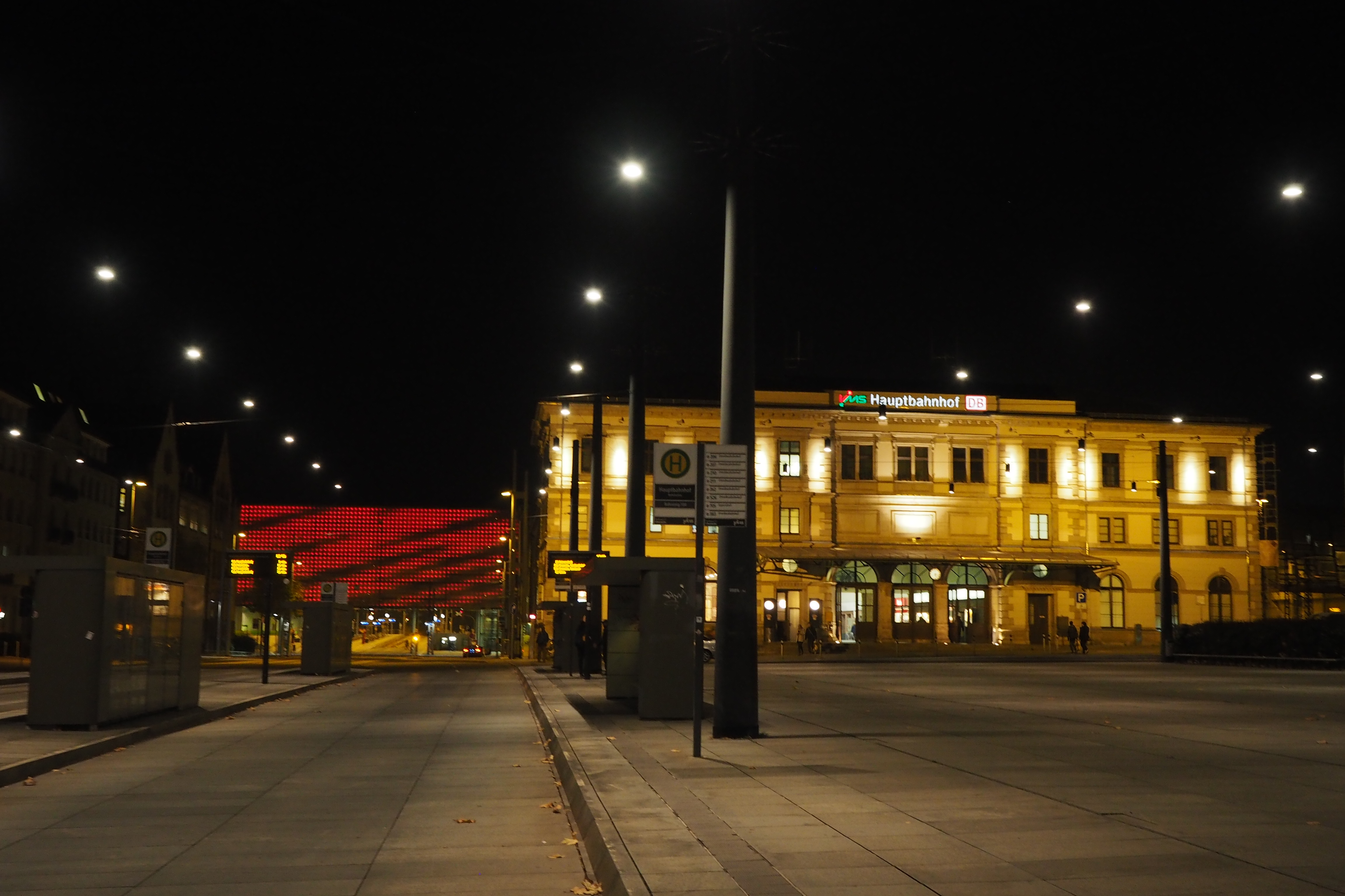 Chemnitz main station with an installation 13 Millionen Zustände of Deborah Geppert at the media facade